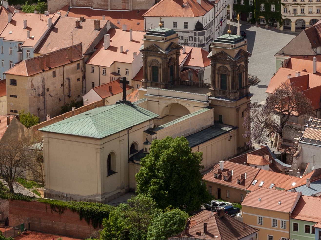 Overview of Mikulov from Svatý Kopeček, Břeclav District, South Moravian Region, Czechia